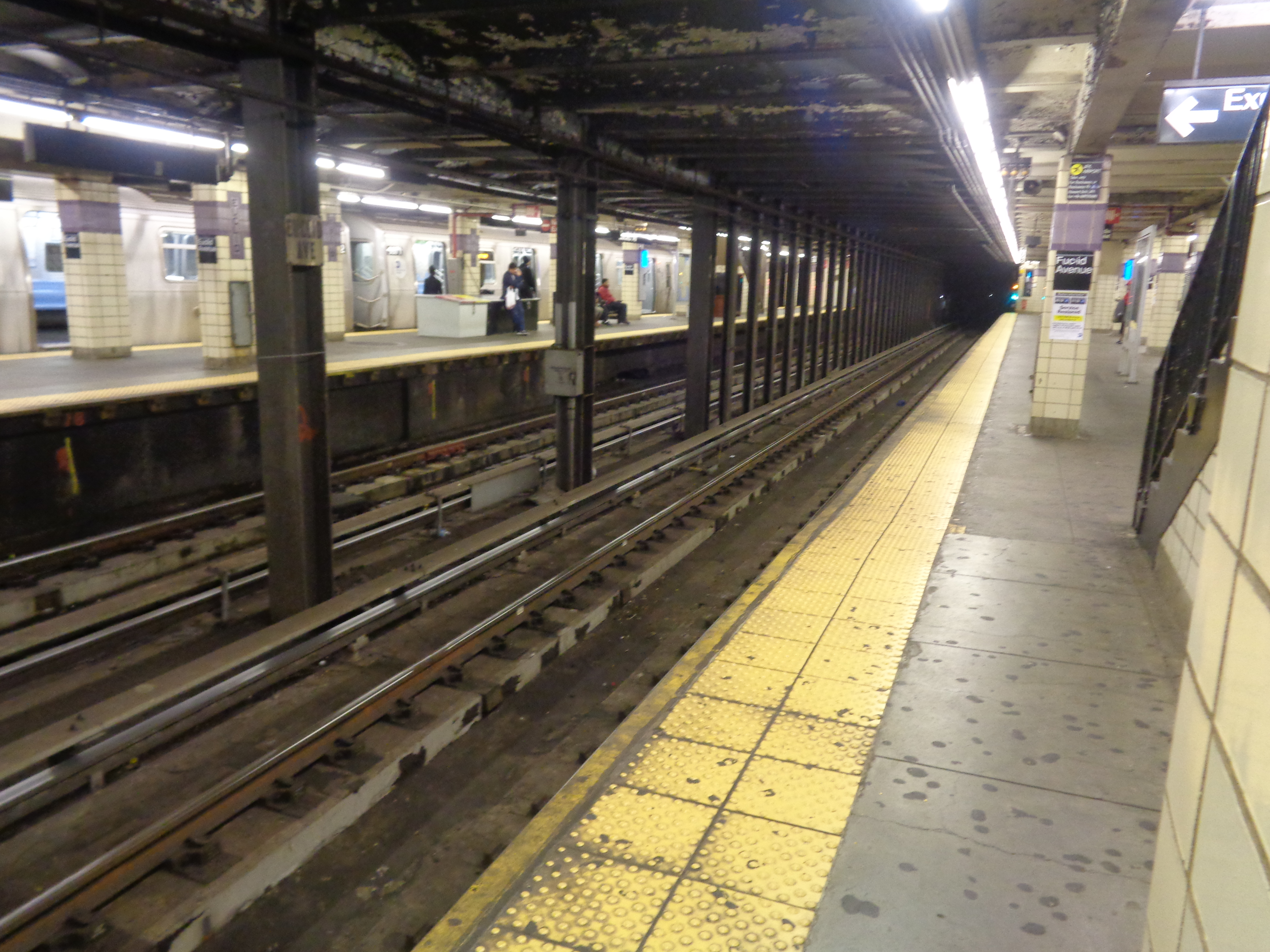 Looking down the Queen-bound express track at Euclid Avenue station in Brooklyn.